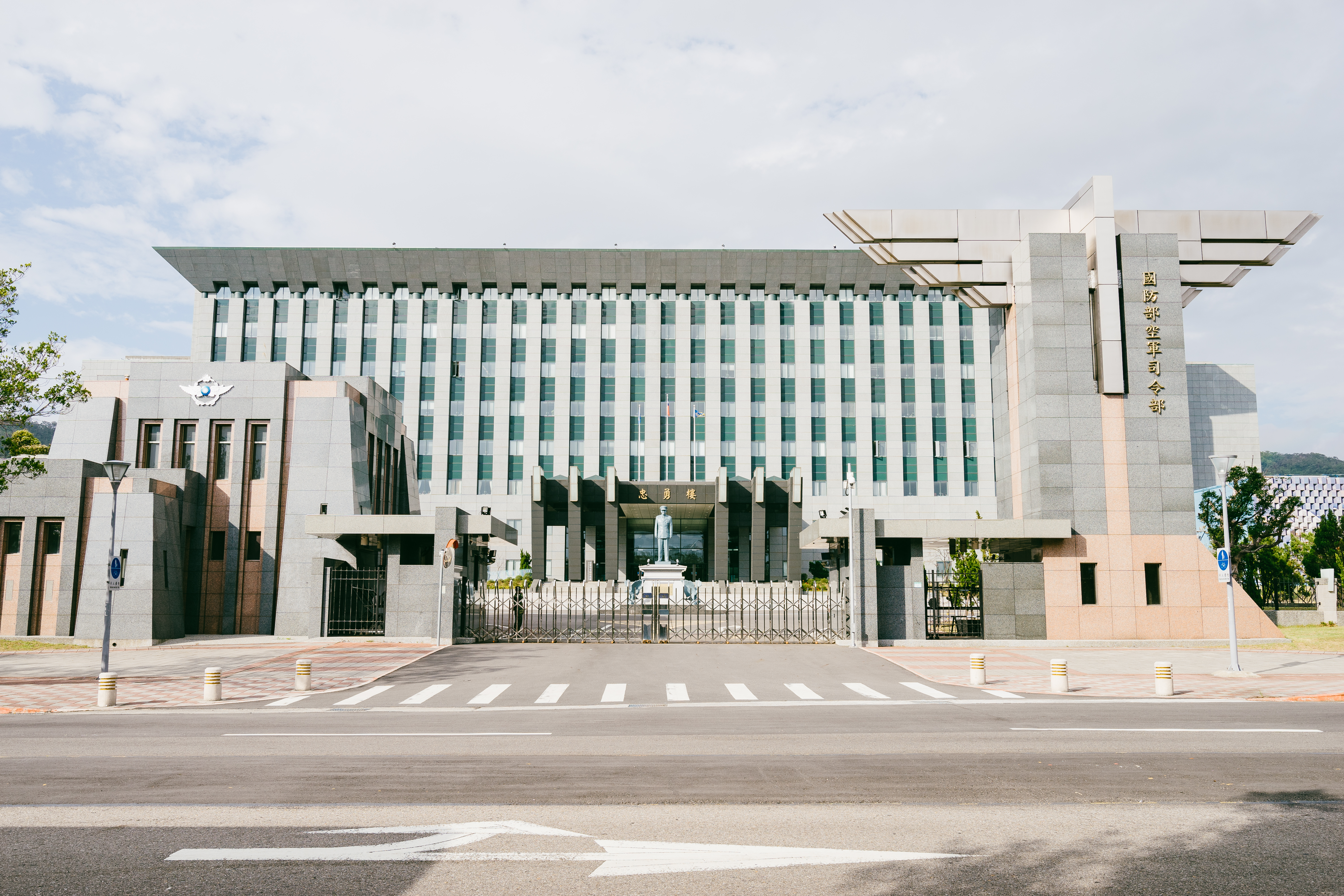 Air Force Commands Headquarters, Ministry of National Defense, Republic of China.